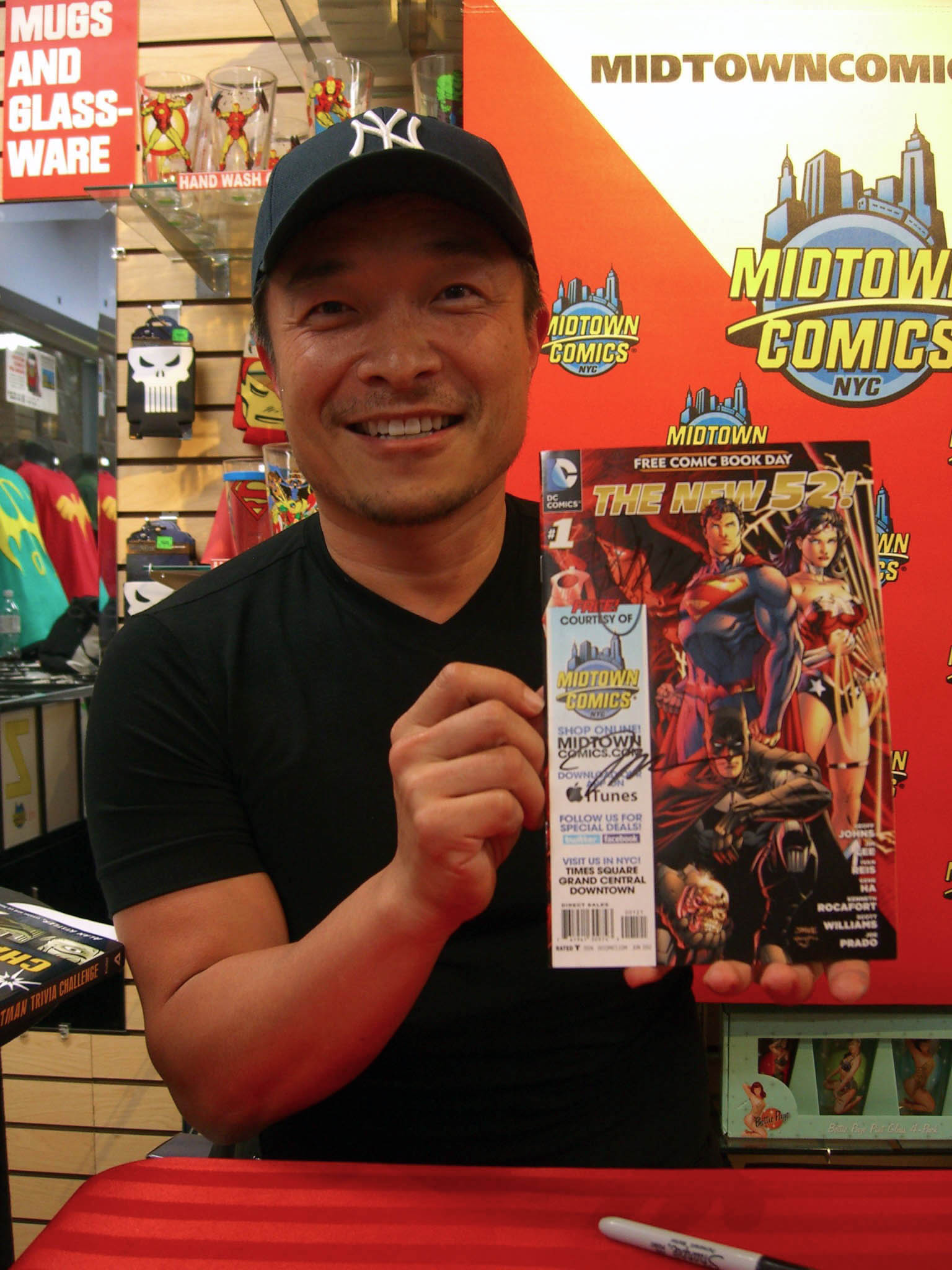 Comic book artist Jim Lee at a May 11, 2012 signing at Midtown Comics Downtown in Lower Manhattan for Justice League Vol. 1: Origin, the hardcover collection of the first six-issue story arc of Justice League volume 2, the monthly series whose debut in September 2011 initiated the company-wide relaunch of all of DC Comics' superhero titles known as The New 52. In the photo, Lee is holding up a copy of DC Comics: The New 52 FCBD Special Edition that he has signed. This photo was created by Luigi Novi. It is not in the public domain, and use of this file outside of the licensing terms is a copyright violation.